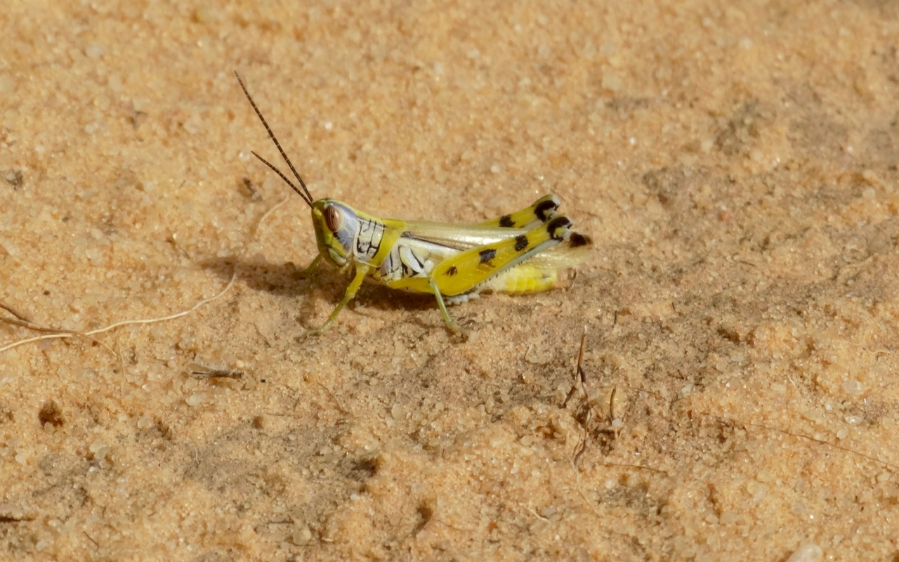 Male Kraussella amabile photographed near Belbedji, Zinder Region, Niger